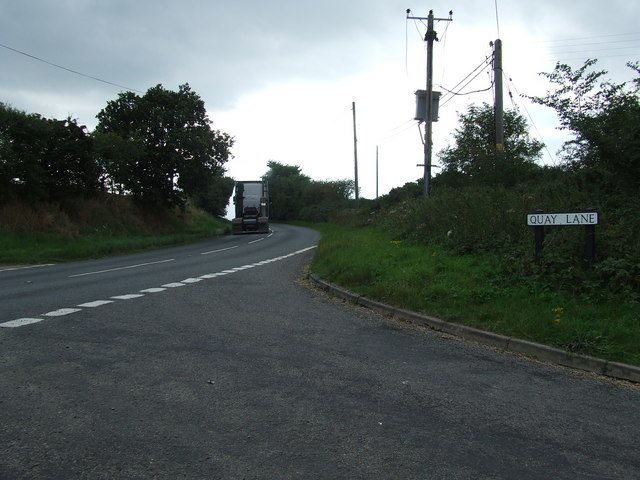 Country road junction Road junction of Quay Lane and the A.1095 near to Southwold Suffolk.